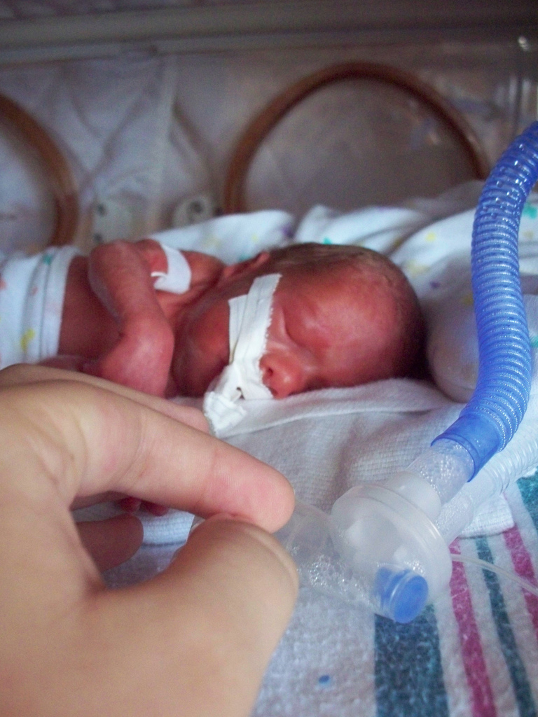 An intubated female premature infant born prematurely 26 weeks 6 days gestation, 990 grams. Photo taken at approximately 24 hours after birth.